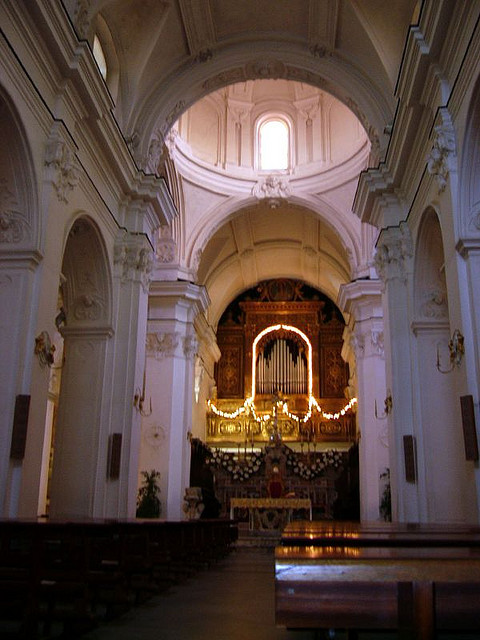 The church in the Piazza of Capri (Santo Stefano, Saint Stephen)